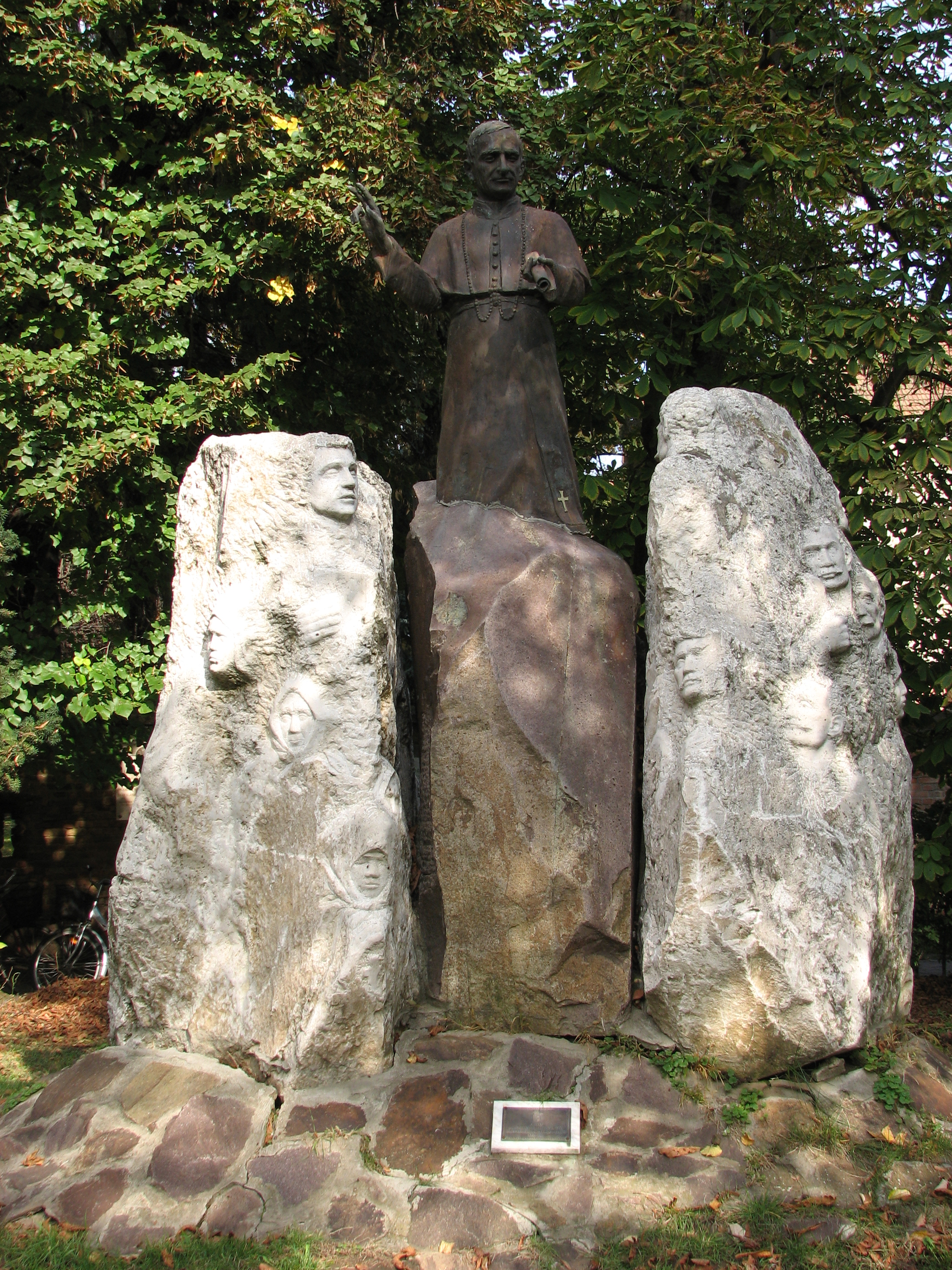 The statue of Pope Pius X (the file name is not correct... it's not Leo X, it is Pius X) in the garden of the Greek Catholic Cathedral of Hajdúdorog, Hungary. The statue was erected in 2000 to commemorate the pilgrimage of almost 500 Hungarian Greek Catholics to Rome just a hundred years ago to ask the pope to secure them the independent and Hungarian-speaking Greek Catholic Church. Finally it was granted by Pope Pius X in his bull Christifideles Graeci which founded the Greek Catholic Diocese of Hajdúdorog in 1912.